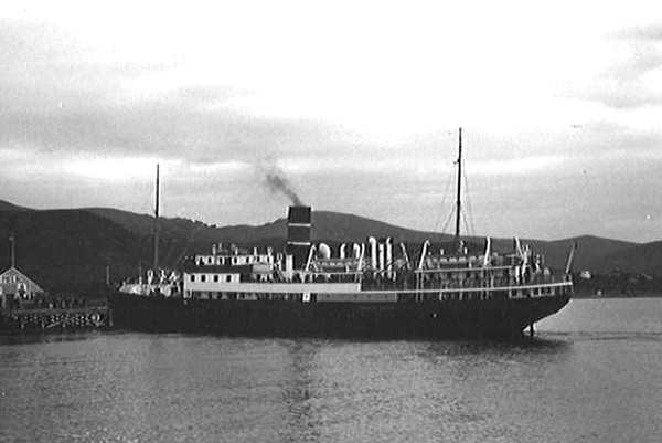 Norwegian coastal express ship (Hurtigruten) DS Prinsesse Ragnhild, built in 1931.